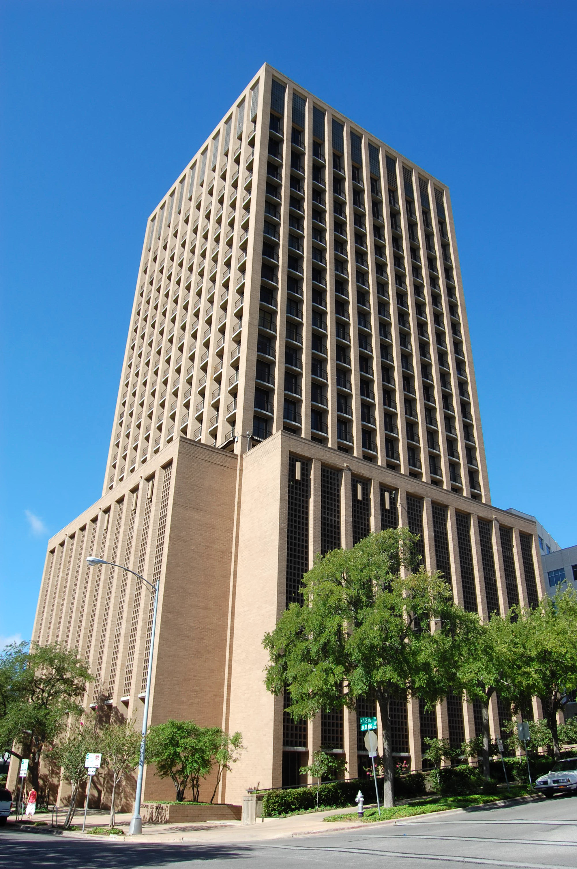 Westgate Tower in Austin, Texas is a high-rise condominium tower across the street from the Governor's Mansion